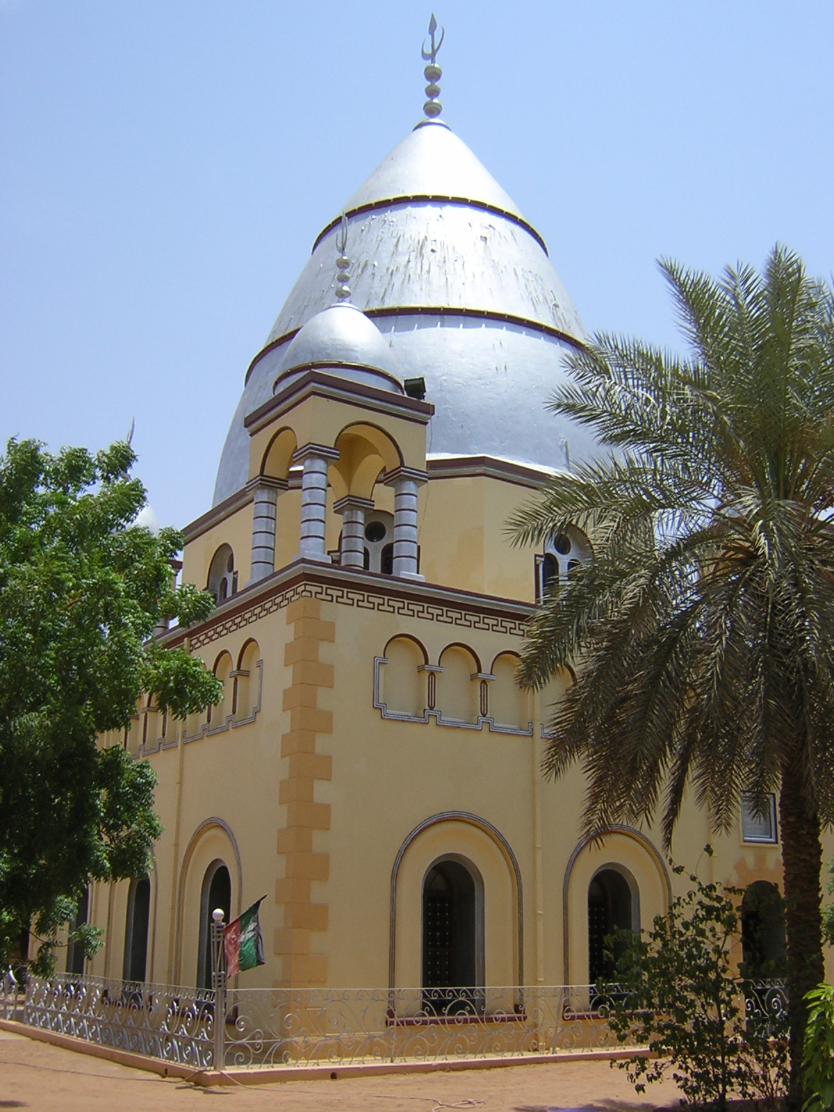 Mahdi's Tomb in Omdurman, Sudan.